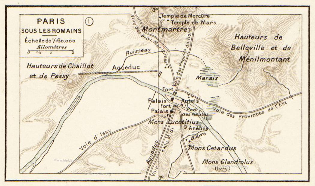 Maps of Paris (Paris sous les Romains) from Atlas General Histoire et Geographie by Paul Vidal de La Blache.